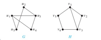 تعیین یک ریختی دو گراف